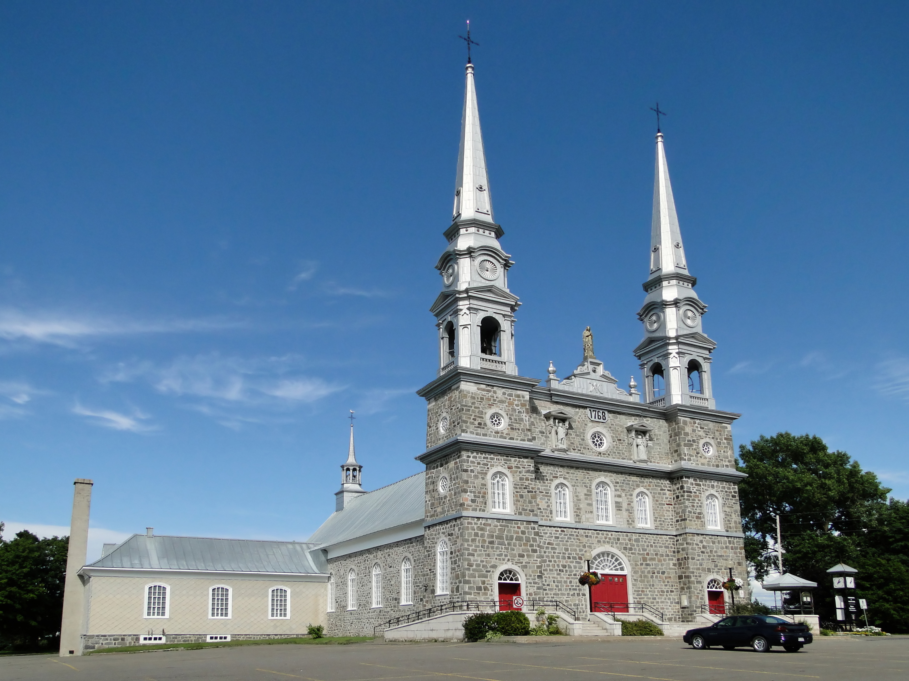 Notre-Dame-de-Bonsecours Church (1768-1771), l'Islet, Province of Quebec, Canada